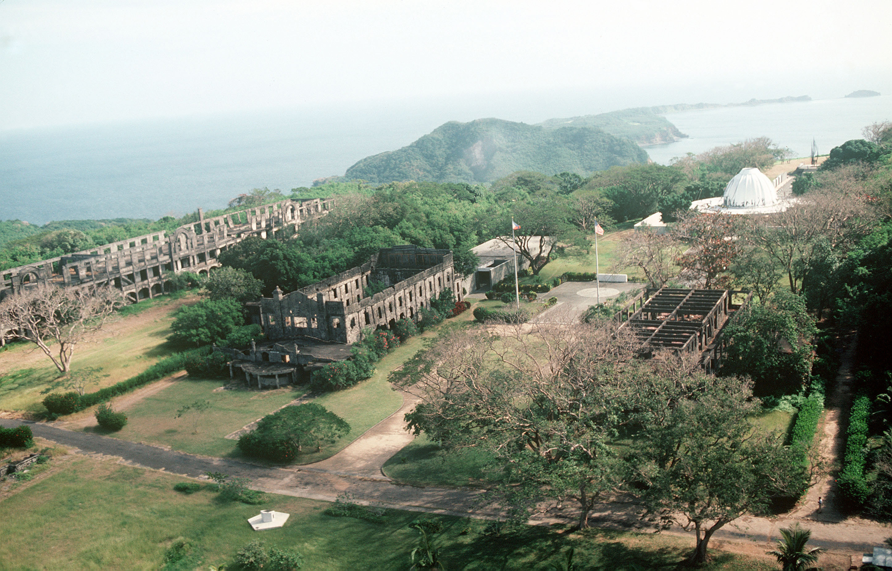 Aerial view of the ruins and a memorial to American defenders of Corregidor island during World War II.